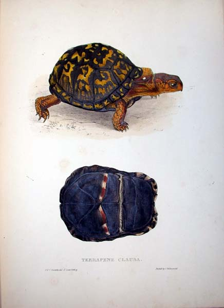 Terrapene clausa - A pioneering dental surgeon by profession, Thomas Bell was also an eminent zoologist who was an expert on crustaceans. He became Professor of Zoology at King's College in London in 1835 and was a founder member of the Zoological Society of London. His Monograph of the Testudinata is said to the first comprehensive account of tortoises. Bell aimed to describe all known species for the first time, including newly discovered varieties.